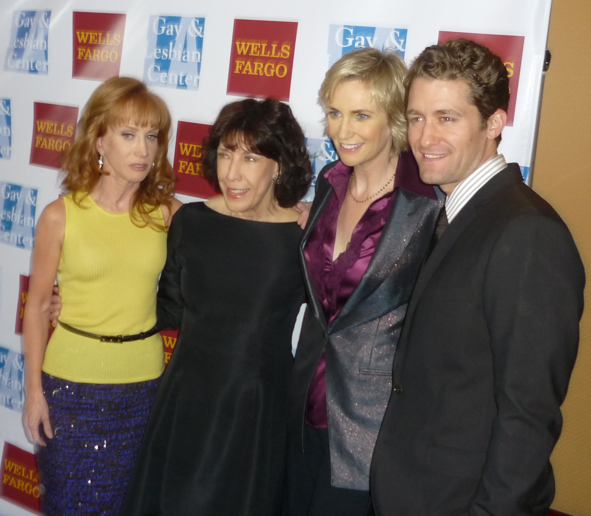 Kathy Griffin, Lily Tomlin, Jane Lynch, Matthew Morrison